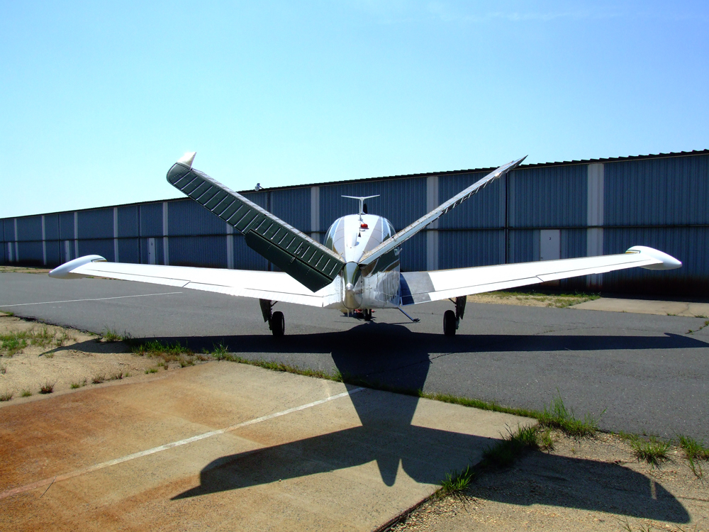 V-tail Bonanza